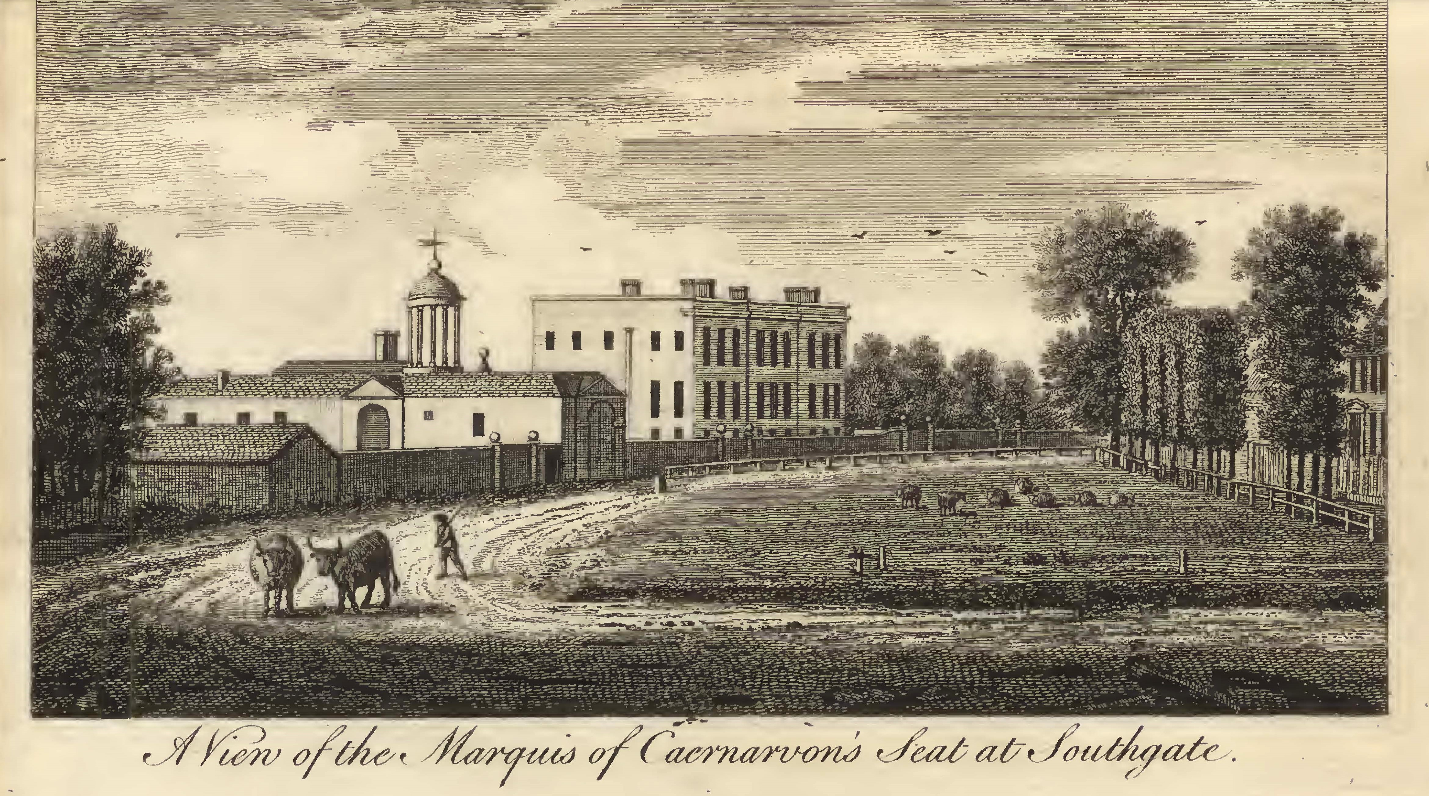 A View of the Marquis of Caernarvon's Seat at Southgate from A new display of the beauties of England, or, A description of the most elegant or magnificent public edifices, royal palaces, noblemen's and gentlemen's seats, and other curiosities, natural or artificial, in different parts of the kingdom : adorned with a variety of copper plate cuts, neatly engraved by Goadby, Robert, 1721-1778 Publication date 1776